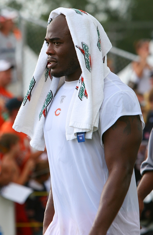 I took this picture of Ricky Manning Jr. on July 27, 2007 at the Chicago Bears 2007 Training Camp.